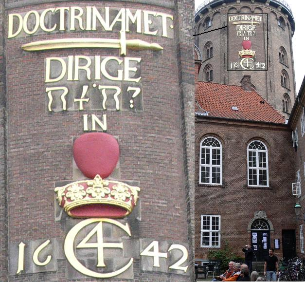 Cut Out of the text on Rundetårn